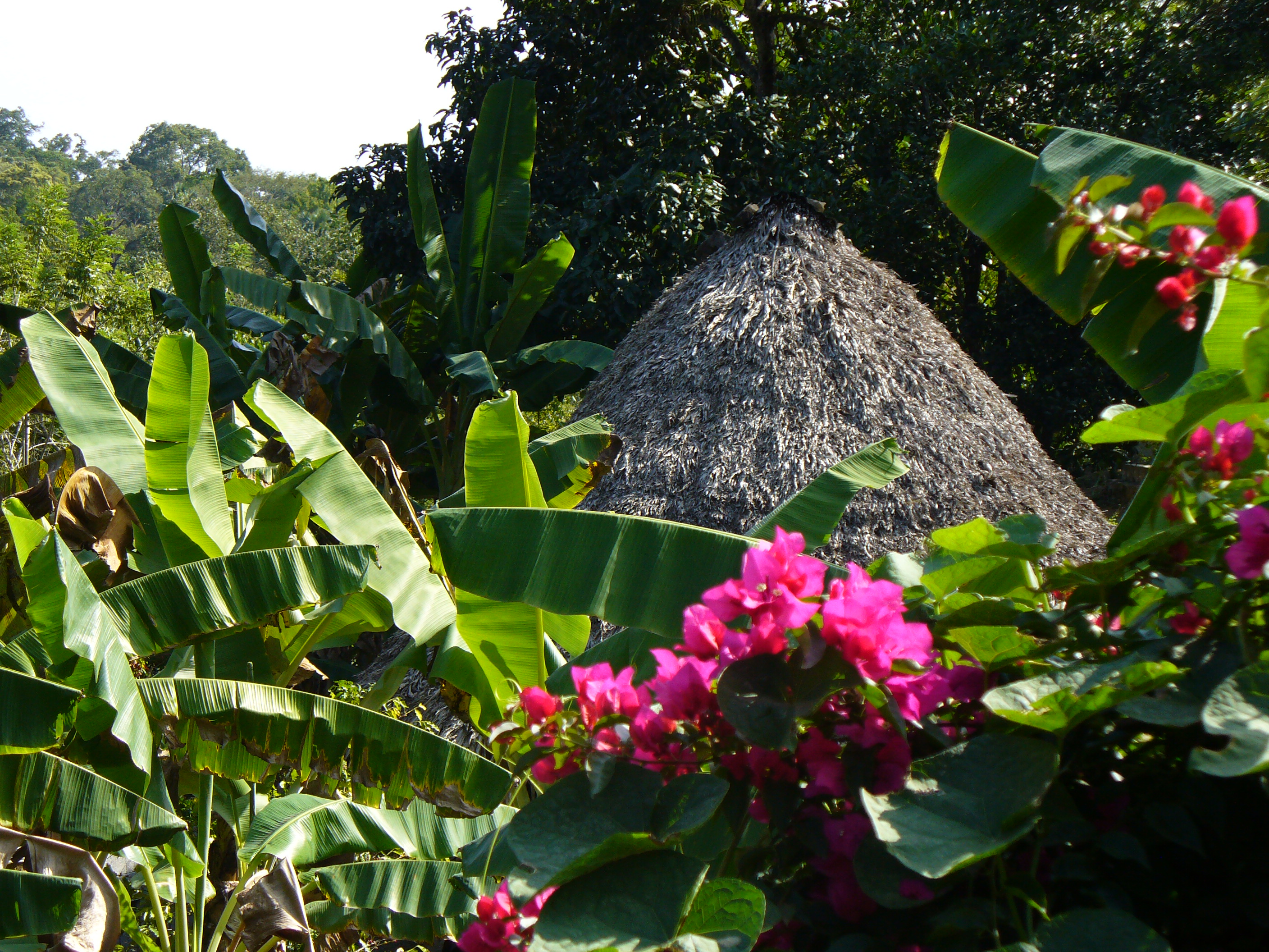 Taken in the Wastec community of Coyol Ja, Tzac-Anam, Tancanhuitz Municipality, San Luis Potosí, Mexico. View of traditional Wastec hut, with banana trees and bougainvilleas.